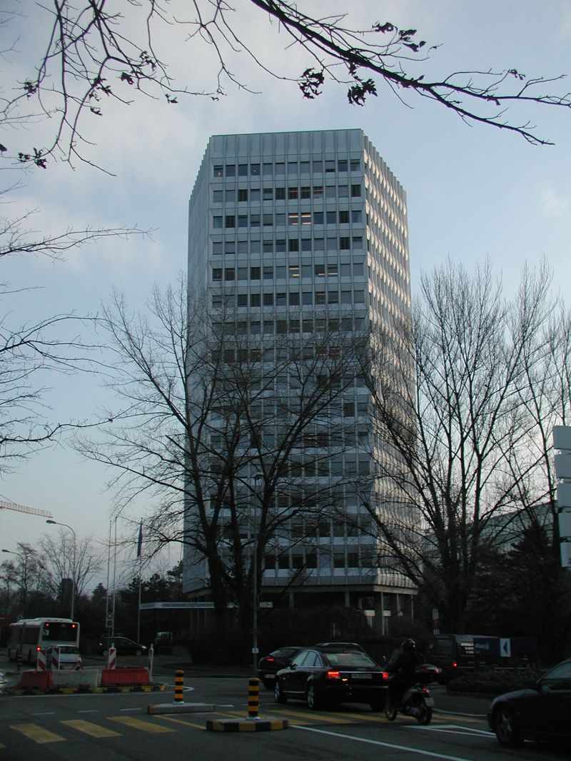 Author: Alexander Mayrhofer Date: 2005-12-15 Source: Photograph by myself The "ITU-Tower" in Geneva, the headquarter of the International Telecommunications Union